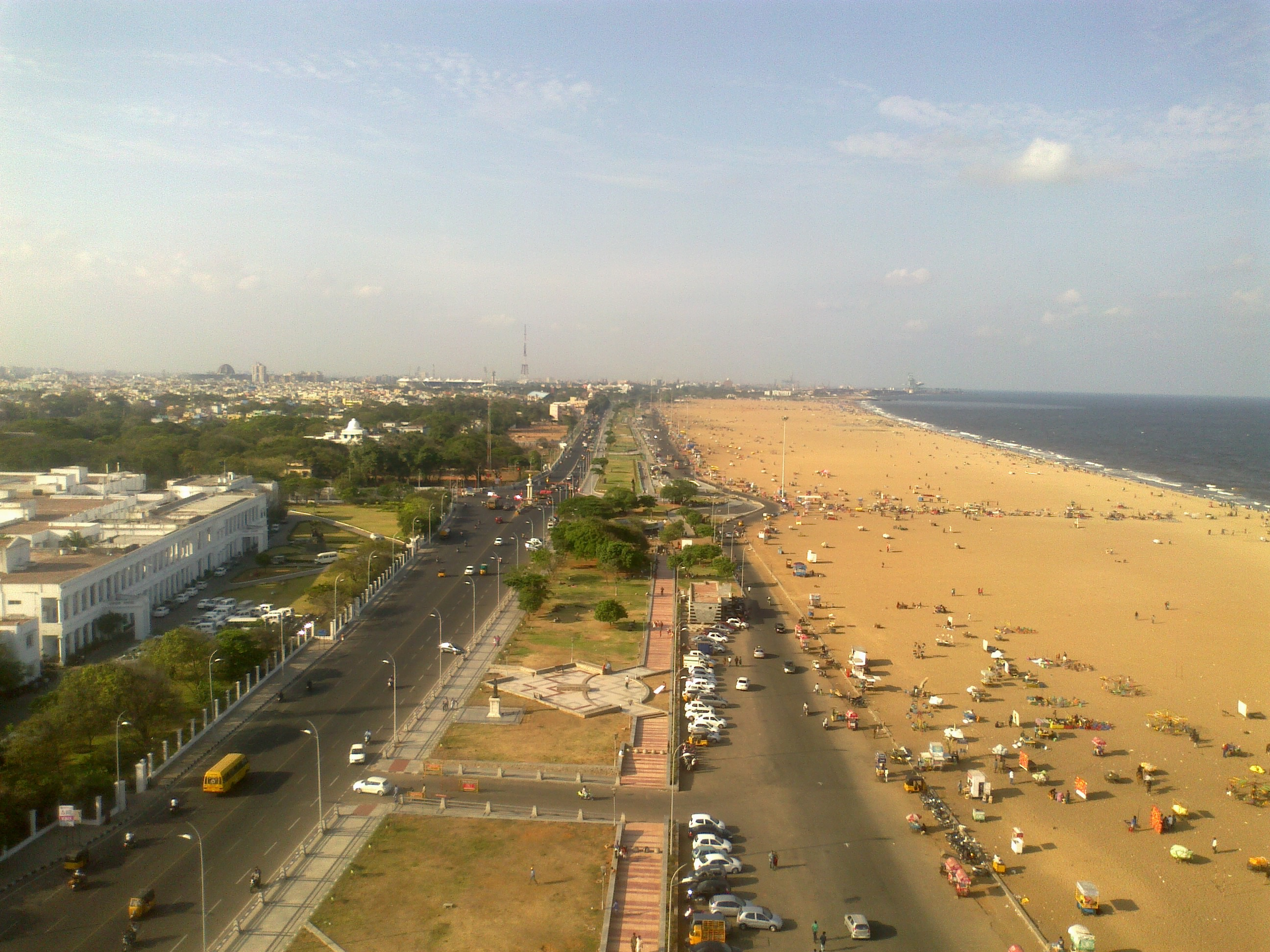 Chennai cities breathing space, marina beach view from light house